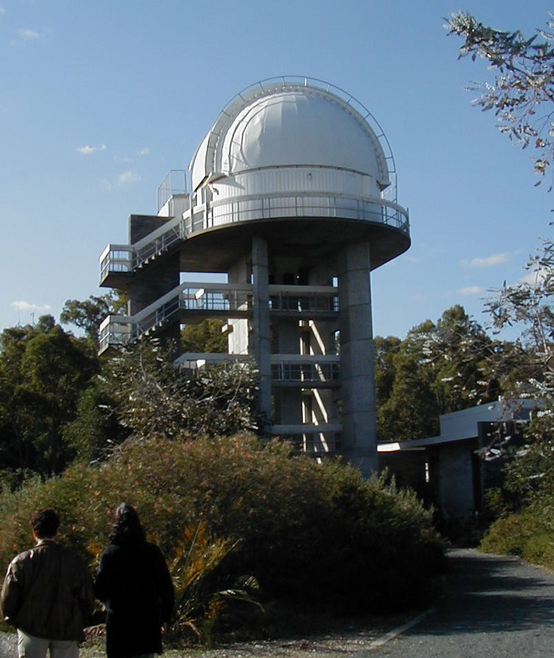 Perth Observatory Perth/Lowell 61cm telescope dome.